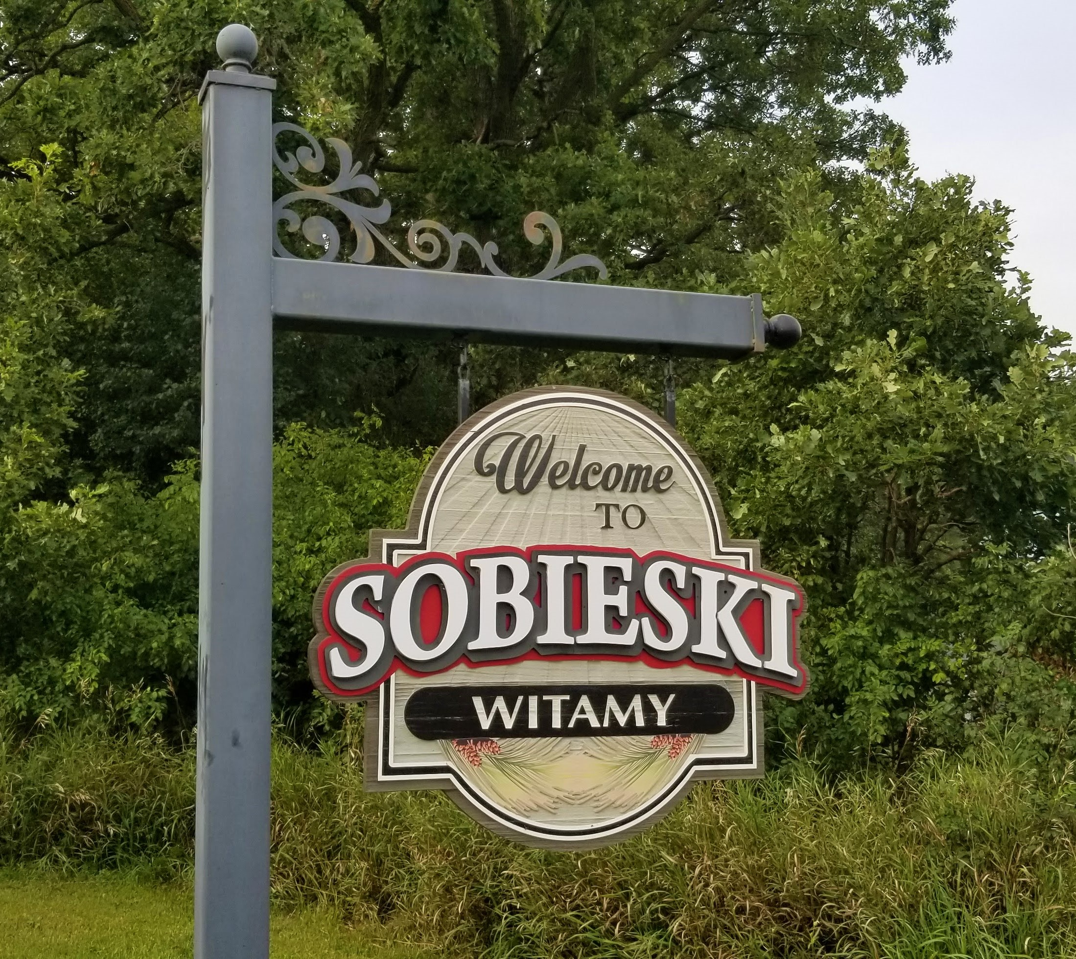 Sign reading "Welcome to Sobieski, witamy". Witamy is a Polish word for welcome, reflecting Sobieski's Polish history.